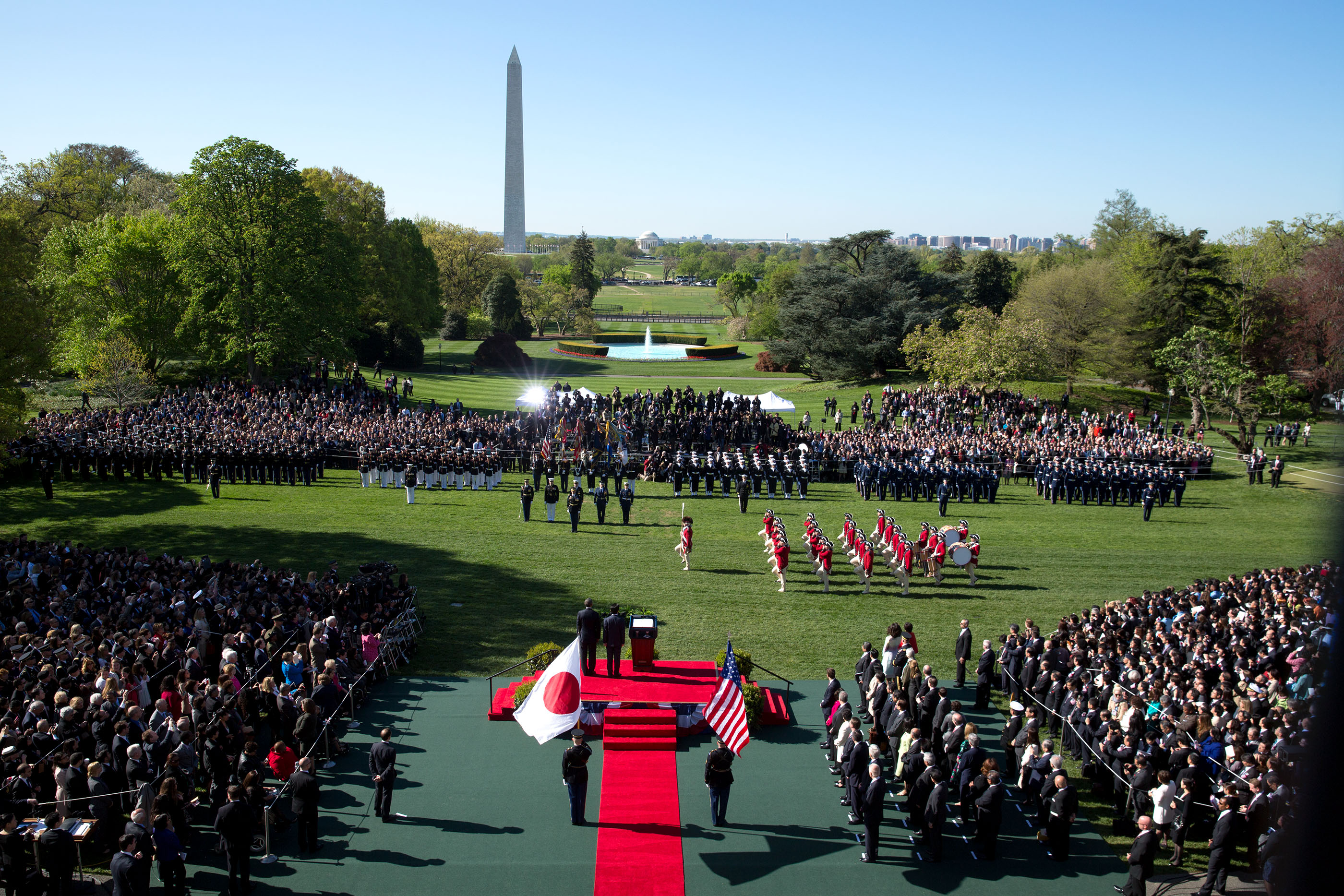 U.S. Army Old Guard Fife and Drum Corps march past the stage during a visit by Japanese Prime Minister Abe. (Official White House Photo by Pete Souza)